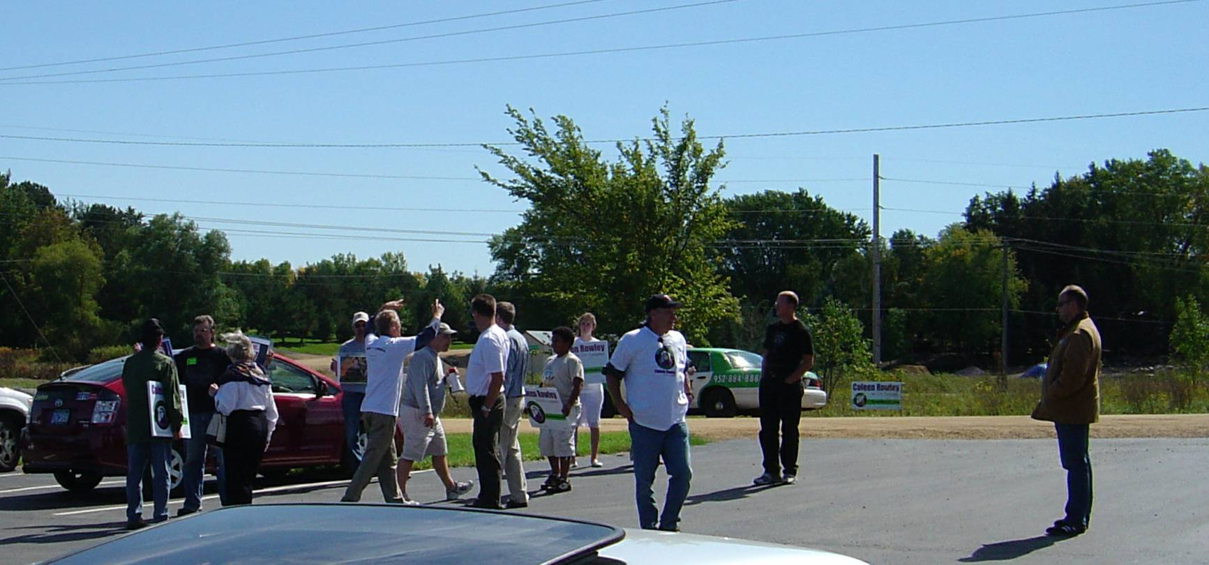 Protesters outside of Coleen Rowley's 17 September 2006 rally in Rosemount, MN. She was the DFL candidate running for Minnesota's 2nd Congressional District